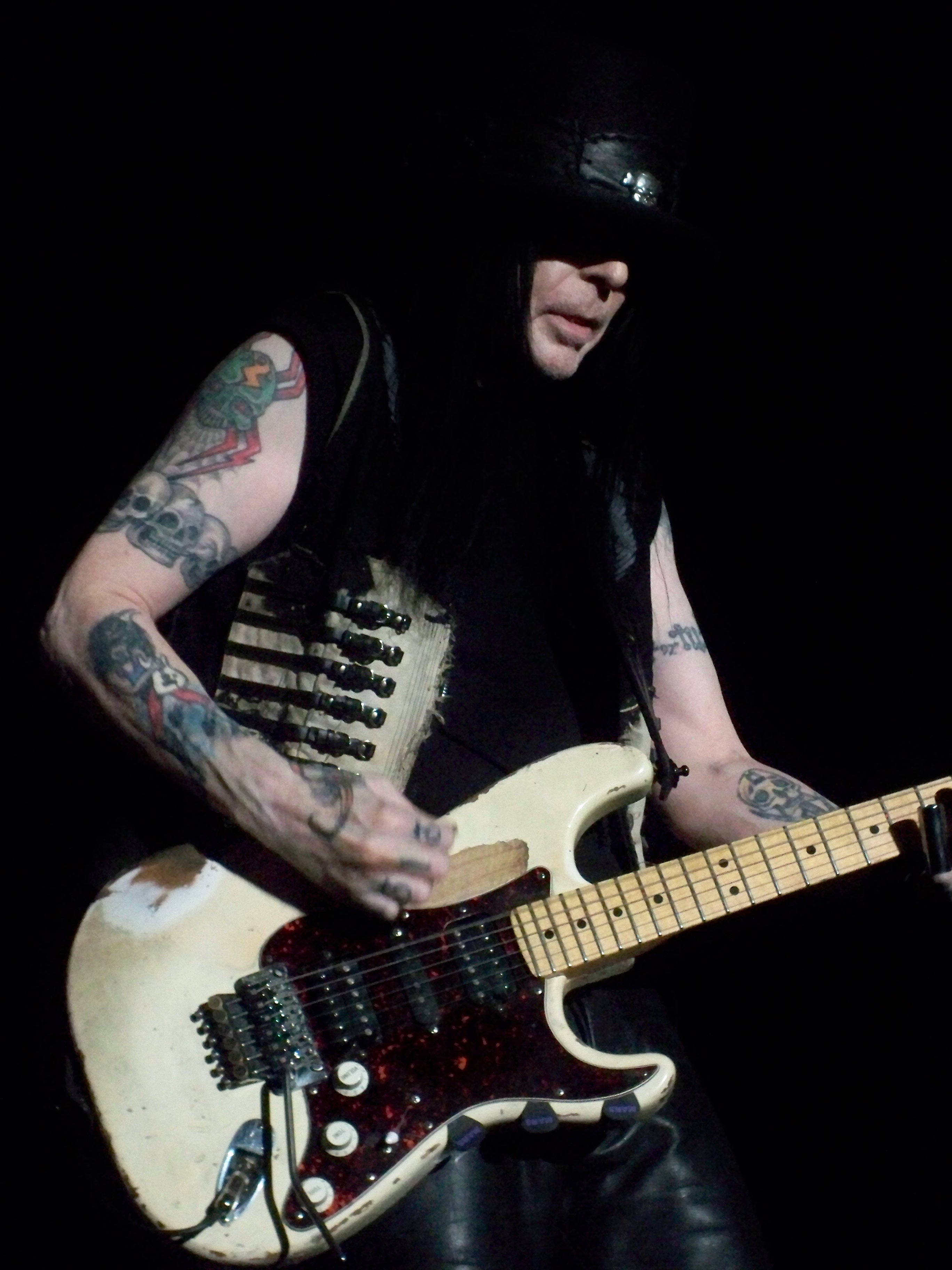 Mick Mars performs with Mötley Crüe in Erie, PA.